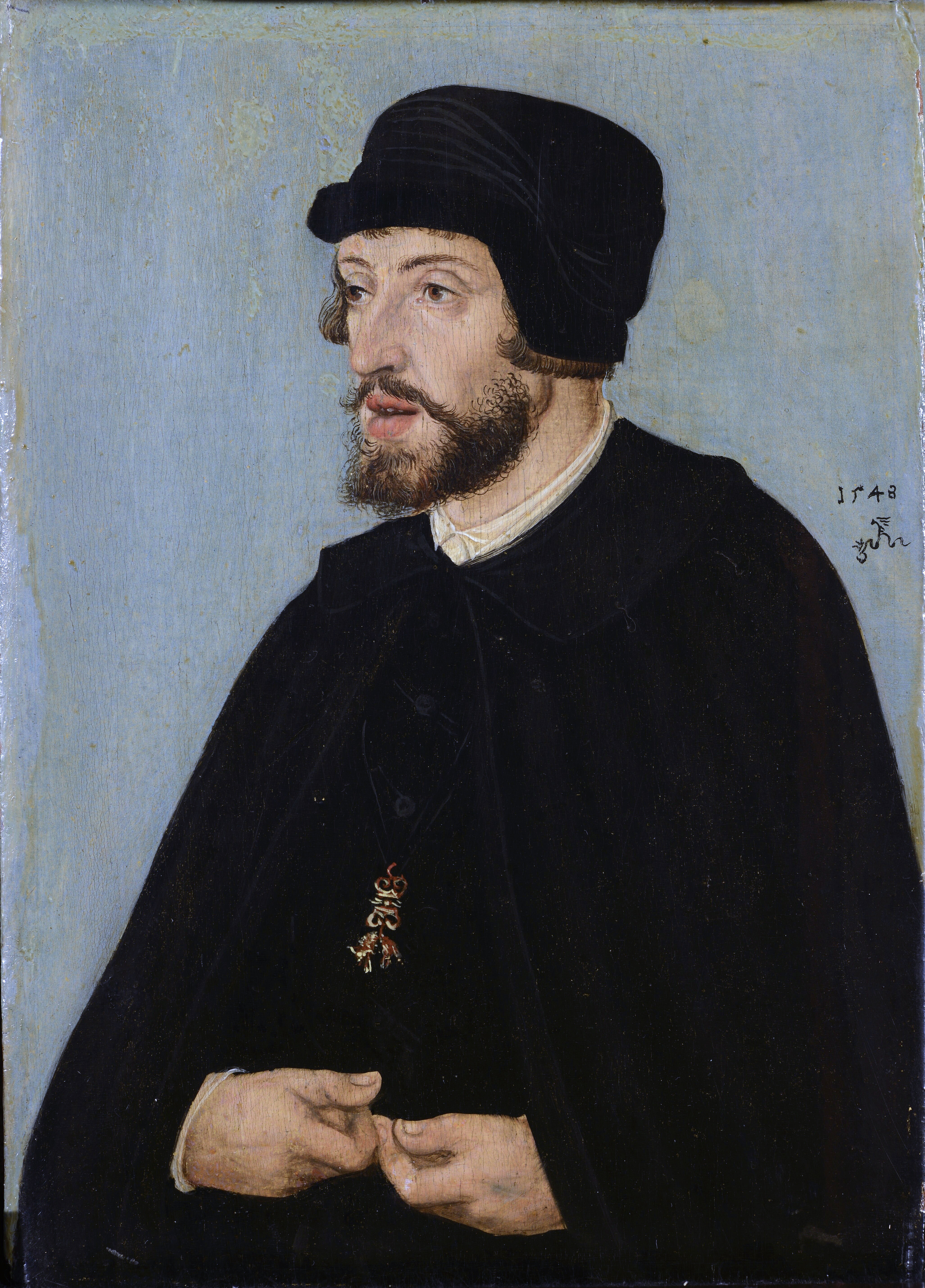 Younger brother of Emperor Karl V in mourning and the order of the Golden Fleece